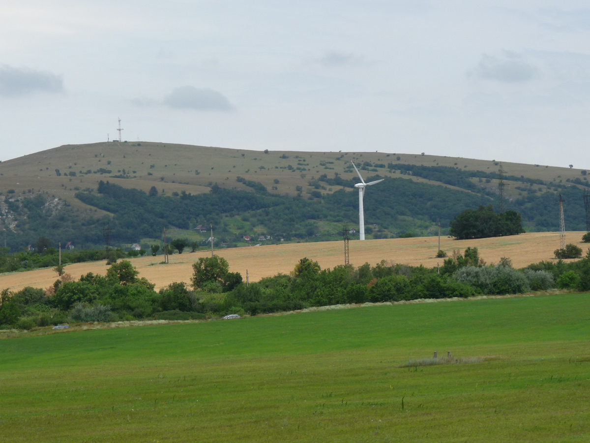 Wind wheel near the town of Inota, as seen from the Veszprém to Székesfehérvár railway.